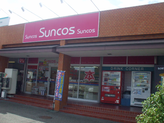 Suncos Nishikani Shop